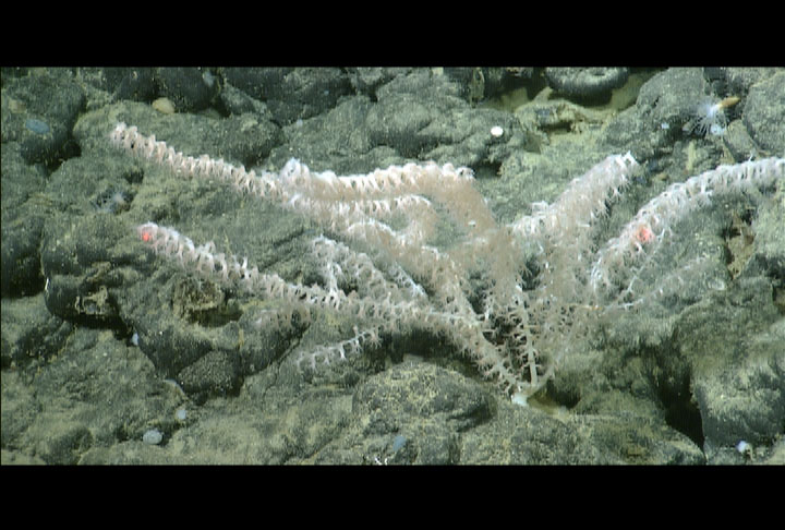 Bamboo coral (Acanella sp.) on the Davidson Seamount at 1682 meters. Credit: NOAA/MBARI 2006